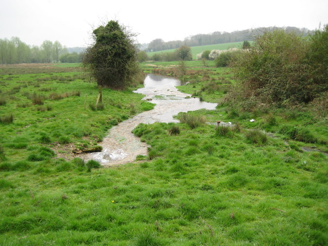 River Gade at Great Gaddesden. Taken from the same viewpoint as 140293 and a little over three years later, the water level in the Gade has risen markedly. A spring in the left foreground is vigorously supplying the river with water, while the main channel of the river from 1257651 flows in at the right. Early 20th century Ordnance Survey maps show that there were watercress beds just downstream of this location on the right side of the river.